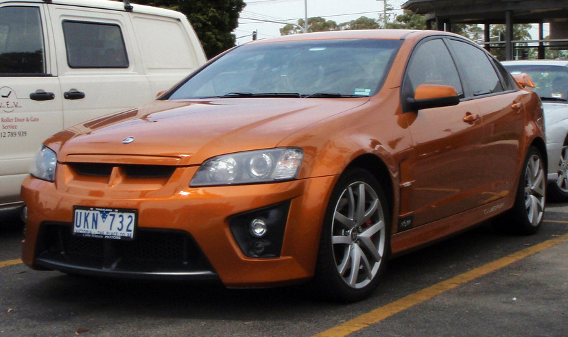 2006 HSV Clubsport (E Series MY07) R8 sedan. Photographed in Victoria, Australia.